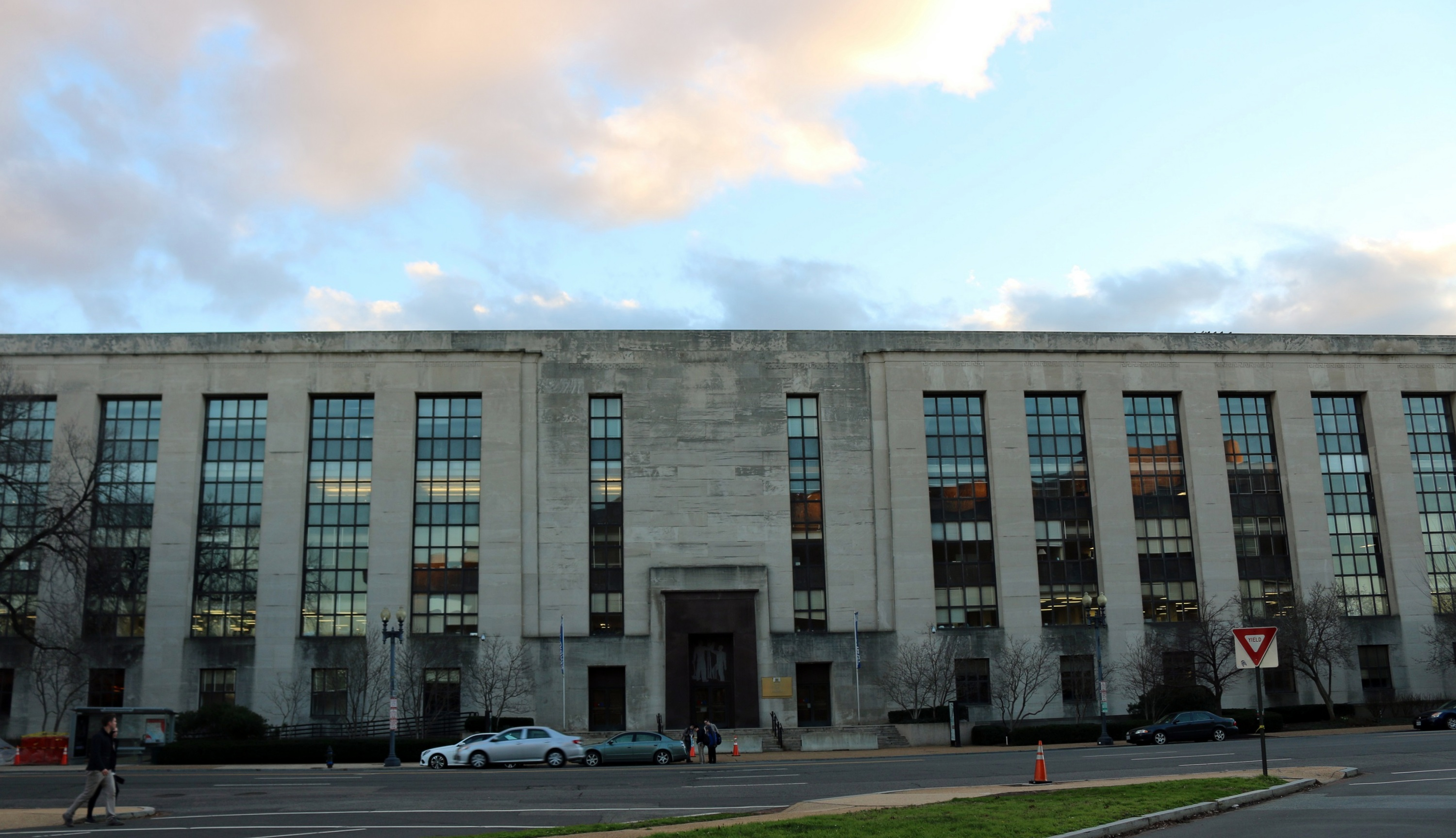 Voice of America (VOA) headquarter in Washington DC's Independence Ave. January 2016. Photo by Persian Dutch Network